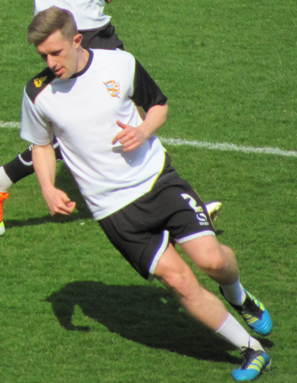 Pictured during the 2-2 draw between Port Vale and Northampton Town on 20 April 2013.